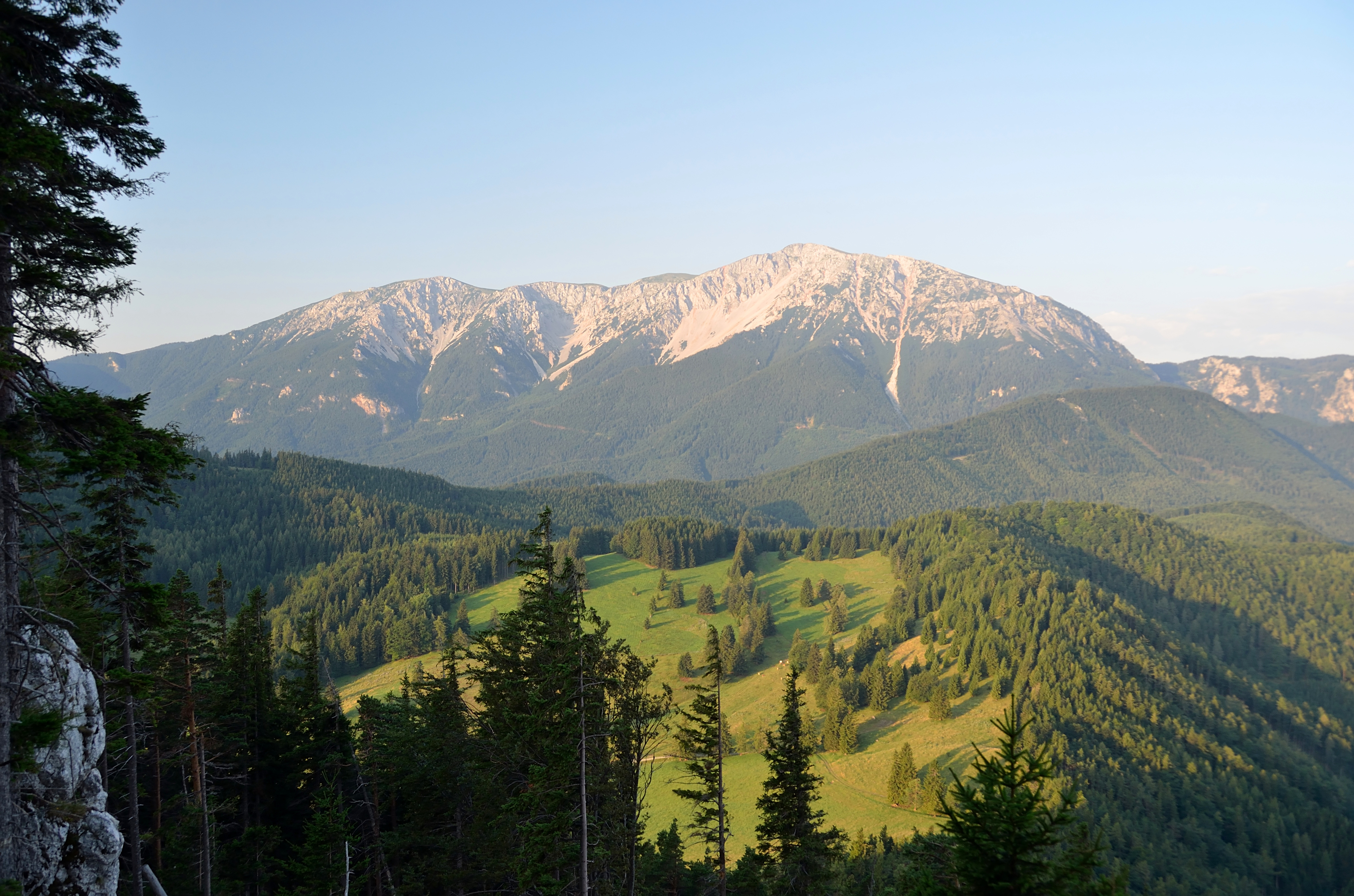 The Schneeberg, Lower Austria, as seen from ascent to Schober (1213m), heading SW.